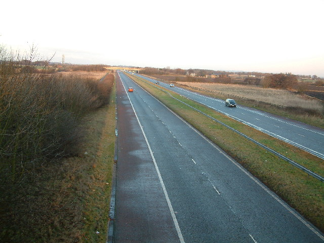 M58 Motorway (the quiet one)